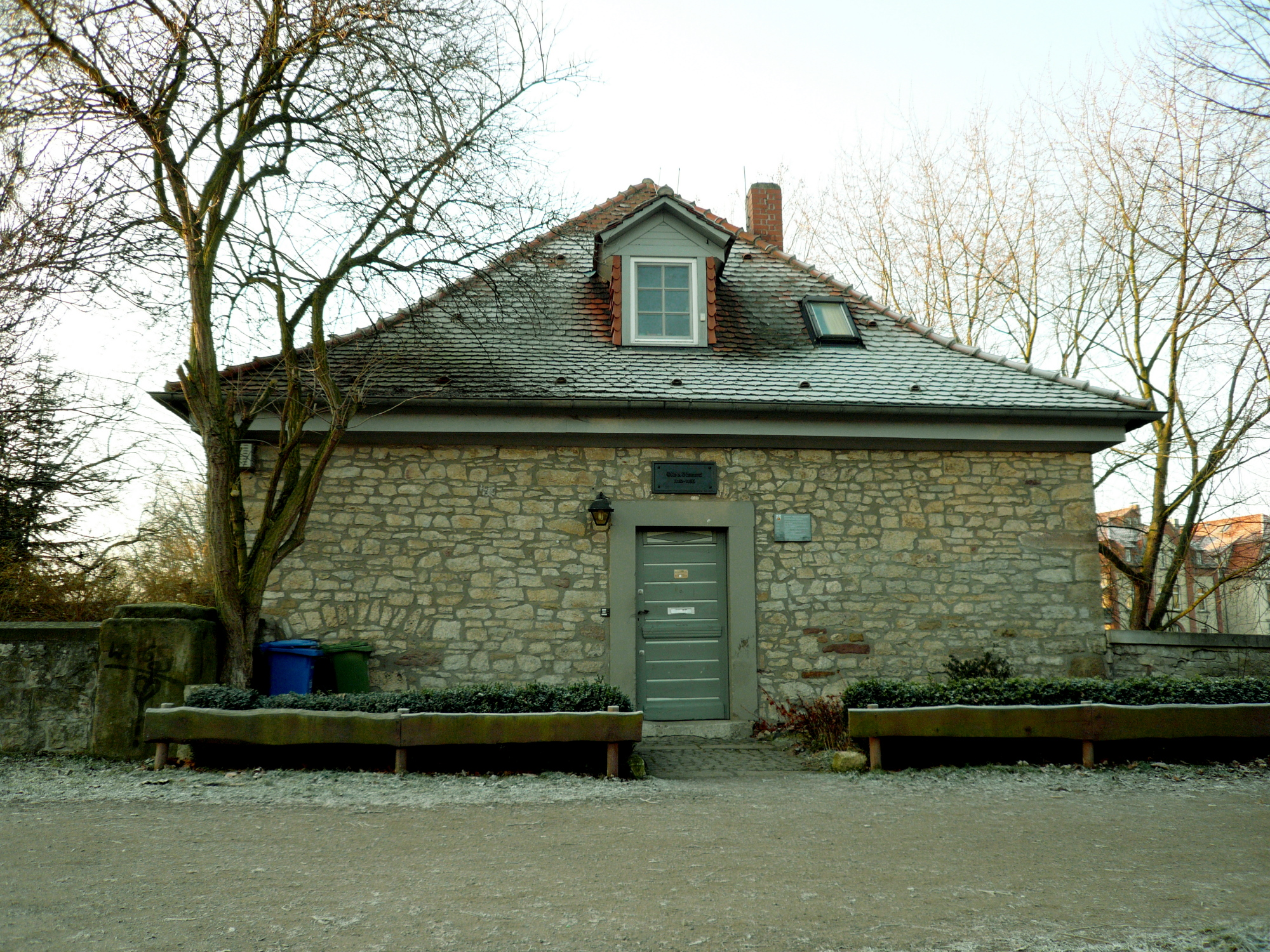 House in which Otto von Bismarck lived while studying at Goettingen